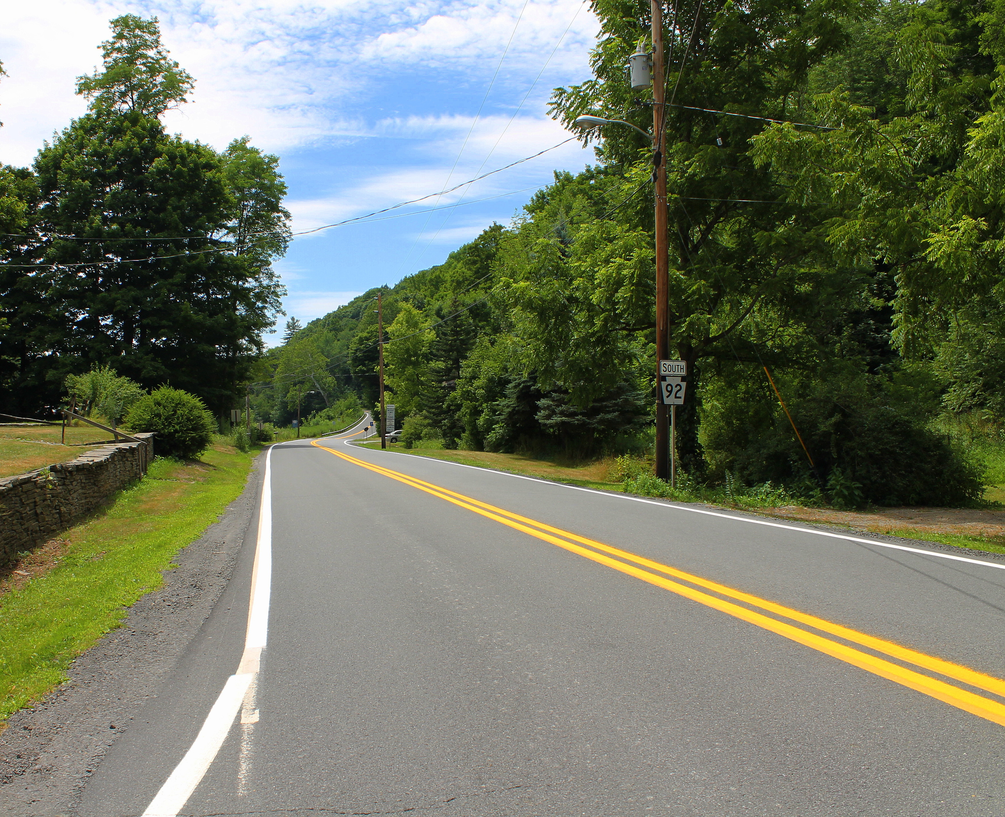 Pennsylvania Route 92 west of Nicholson, Pennsylvania